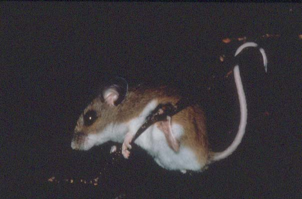 White-footed mouse